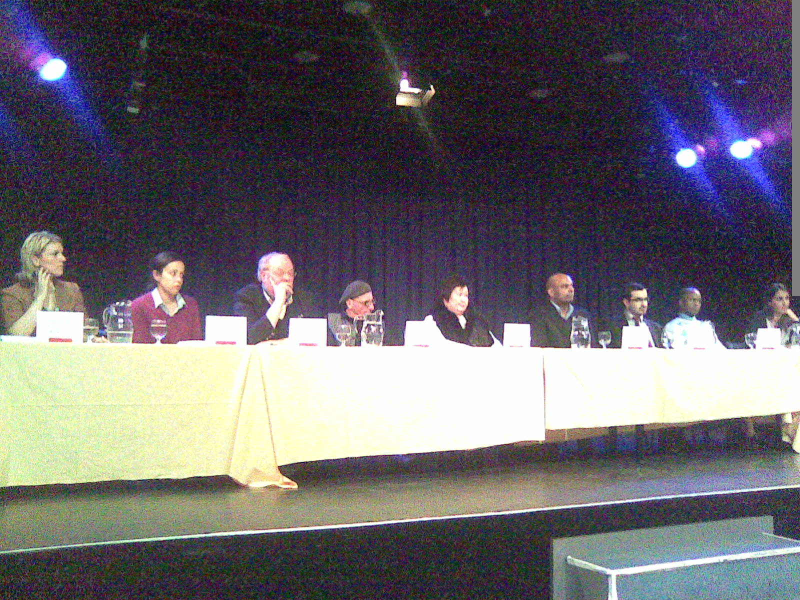 A hustings event in Caisa cultural centre, Helsinki, for the 2011 Finnish parliamentary election. From left to right: Fatbardhe Hetemaj (kok), Hanna Mithiku (vas), Seppo Kanerva (ps), Nicolas Mavromichalis (Muutos 2011), Kerman Soitu (kd), Tino Singh (sfp), Husein Muhammed (vihr), Abdirahim Hussein (kesk), Nasima Razmyar (sdp); not shown: JP Väisänen (Communist).